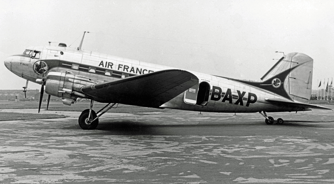 Douglas C-47A (DC-3) F-BAXP of Air France at Manchester (Ringway) Airport in 1952